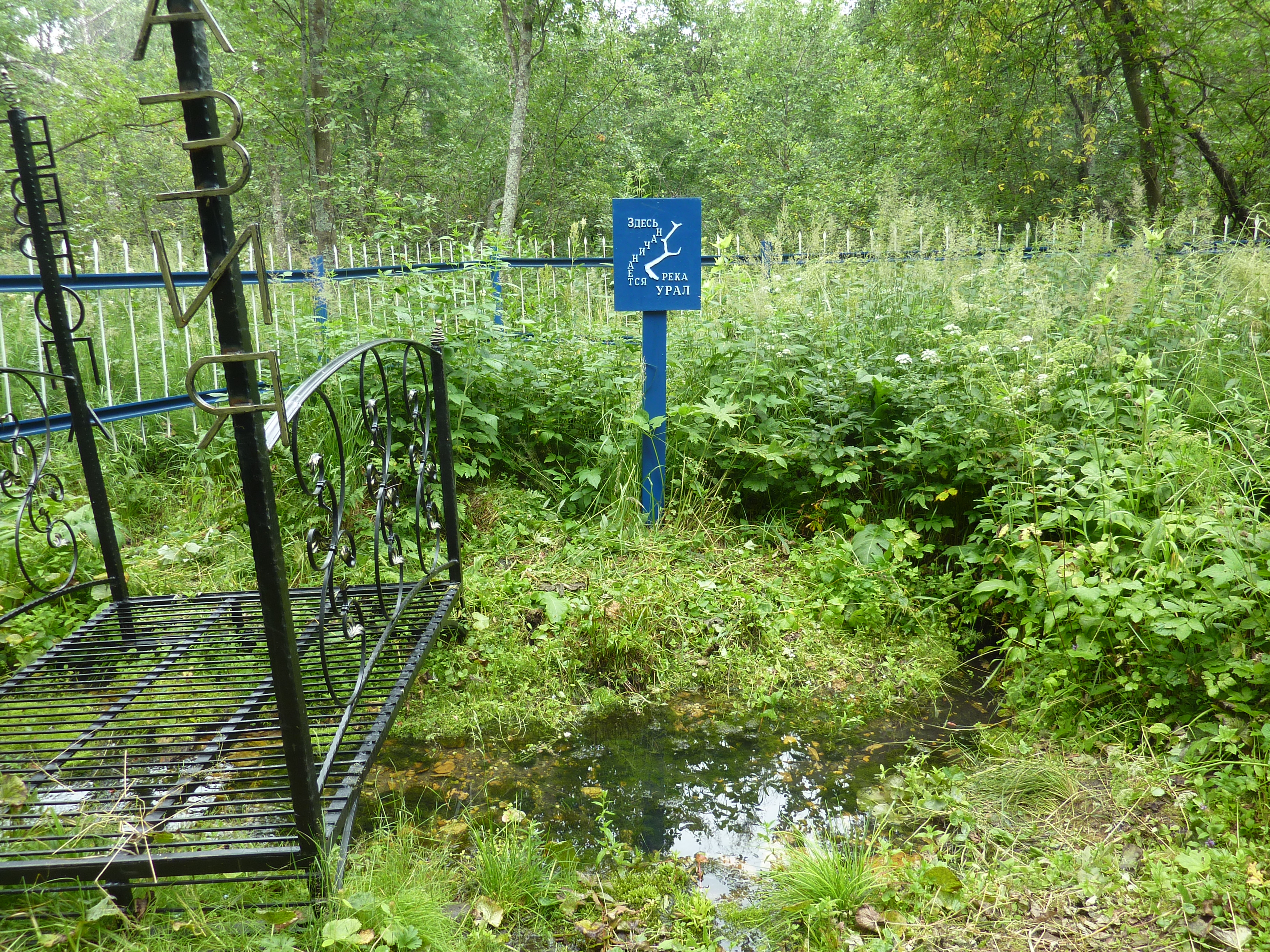 So begins the Ural River.